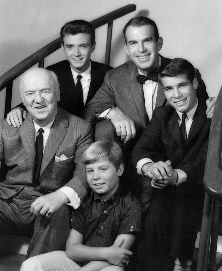 Publicity photo for the 3rd season premiere of My Three Sons. Clockwise from left: William Frawley as Bub, Tim Considine as Mike, Fred MacMurray as Steve, Don Grady as Robbie, and Stanley Livingston as Chip from My Three Sons.